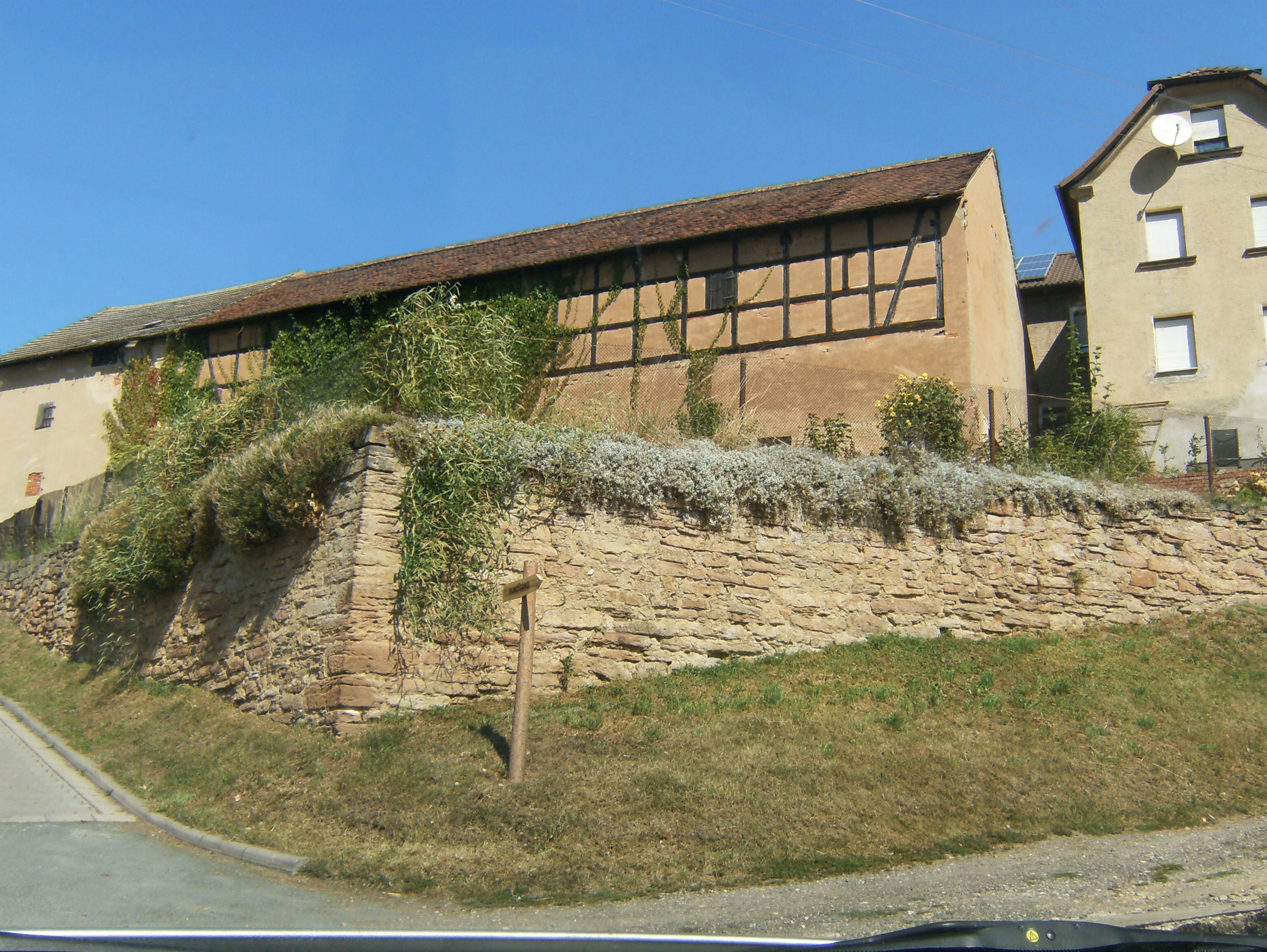 Kleinfalke, ancient manorial etate.